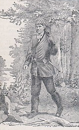 A drawing of Ohio settler Peter Navarre, taken from Henry Howe's History of Ohio (1888)